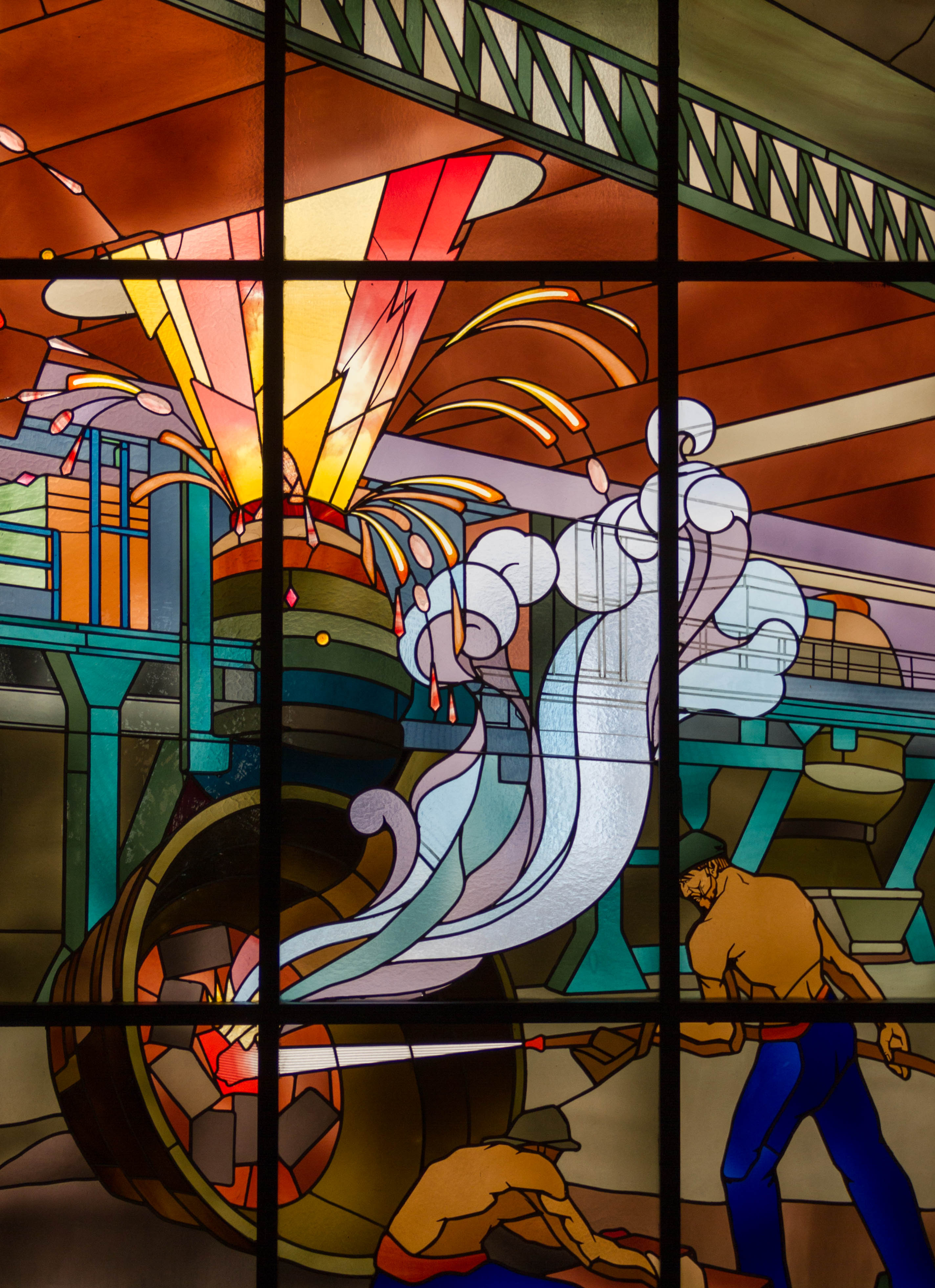 Stained glass window in the former Longwy steel factory by Louis Majorelle. Artistic value : Longwy steel factory's stained glasses are the only stained glasses by major artist Louis Majorelle and are a remarquable example of Art Déco. Historical value : the stained glasses illustrate the history of steel factory which had a huge impact on the area.